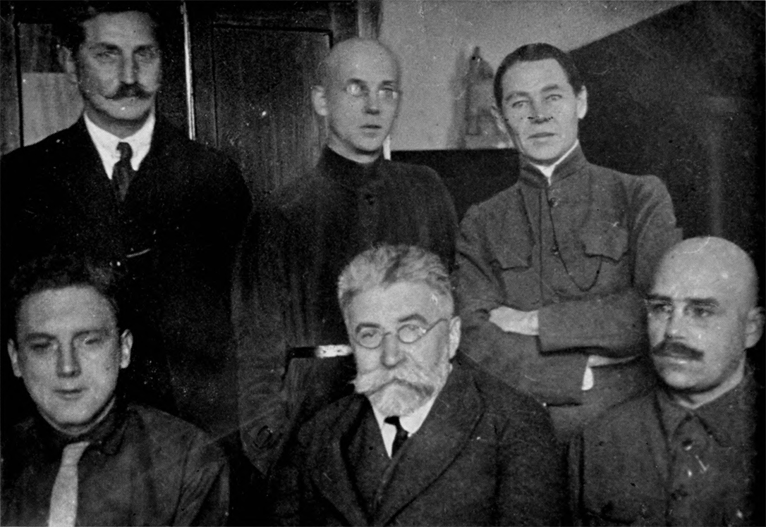 Comission for Historic Studies of Western-Rus and Ukrainian Law of Ukrainian Academy of Sciences, 1924. Sitting (from left): Лев Олександрович Окіншевич, Академік Микола Прокопович Василенко, Сергій Михайлович Іваницький-Василенко; Standing (from left): Іринарх Юреналович Черкаський, Степан Гнатович Борисенок, Іван Мартинович Балинський.